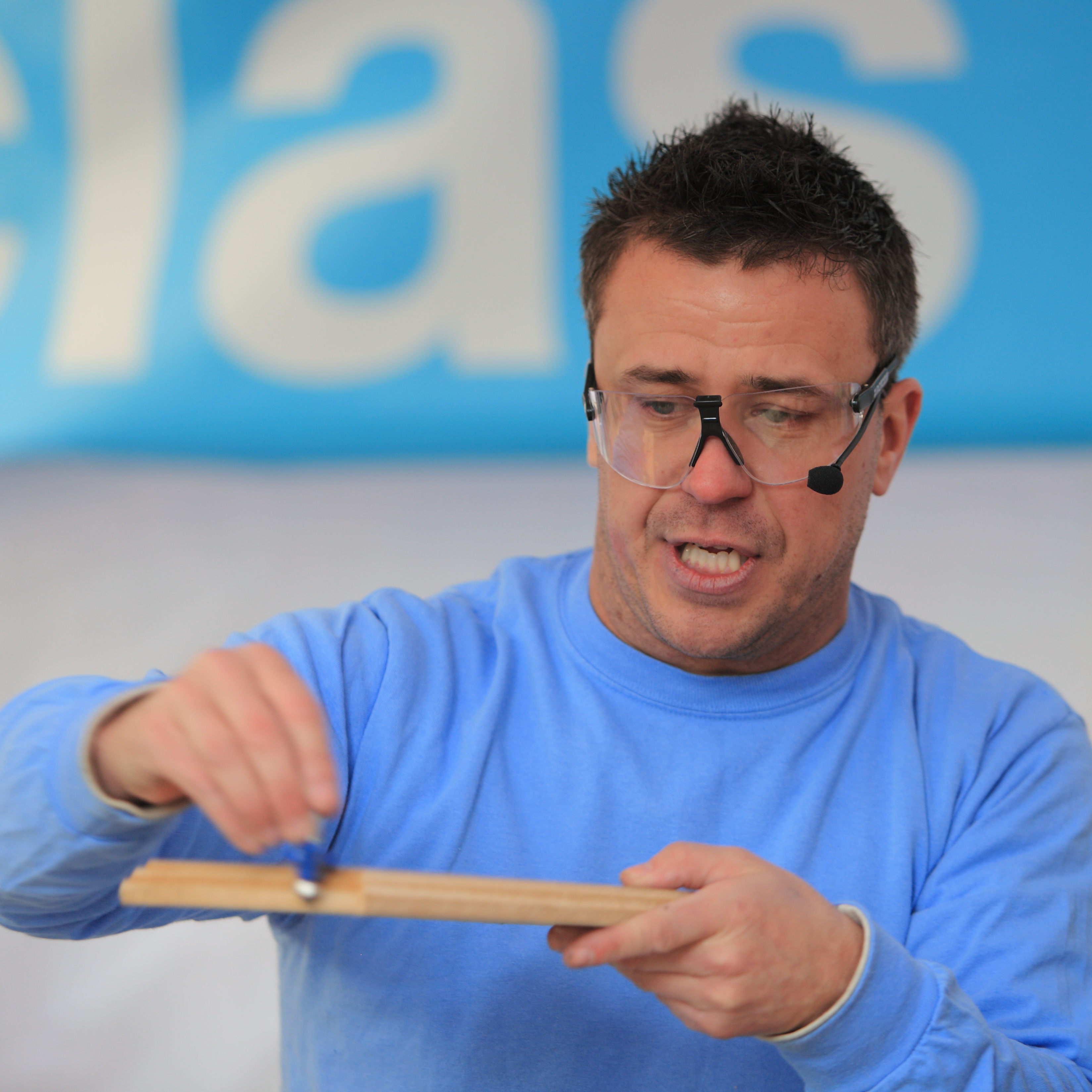 Craig Phillips teaching DIY during a Ryobi promotion for Clas Ohlson in Reading.